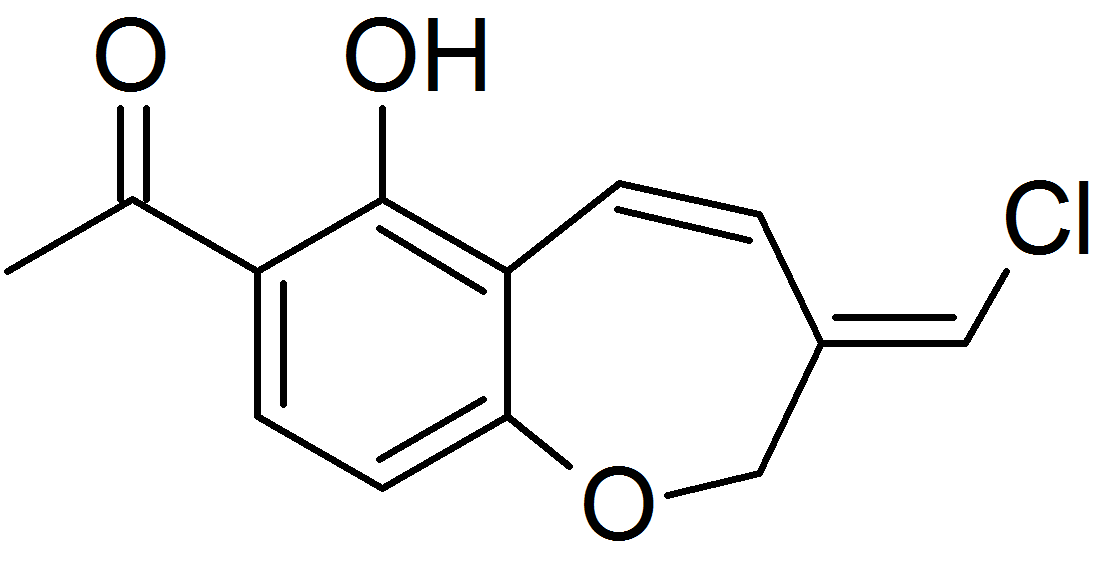 Compound 27, drawn from page 109 of [1] 6-Hydroxypterulone is a derivative of pterulone, a potent antifungal metabolite first isolated from submerged cultures of Pterula species (order Agaricales) in 1997.